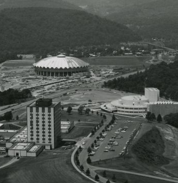 An early view of WVU's Evansdale campus around 1970 just after the constructions of the coliseum.